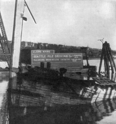 Hulk of sidewheeler George E. Starr on Lake Union.